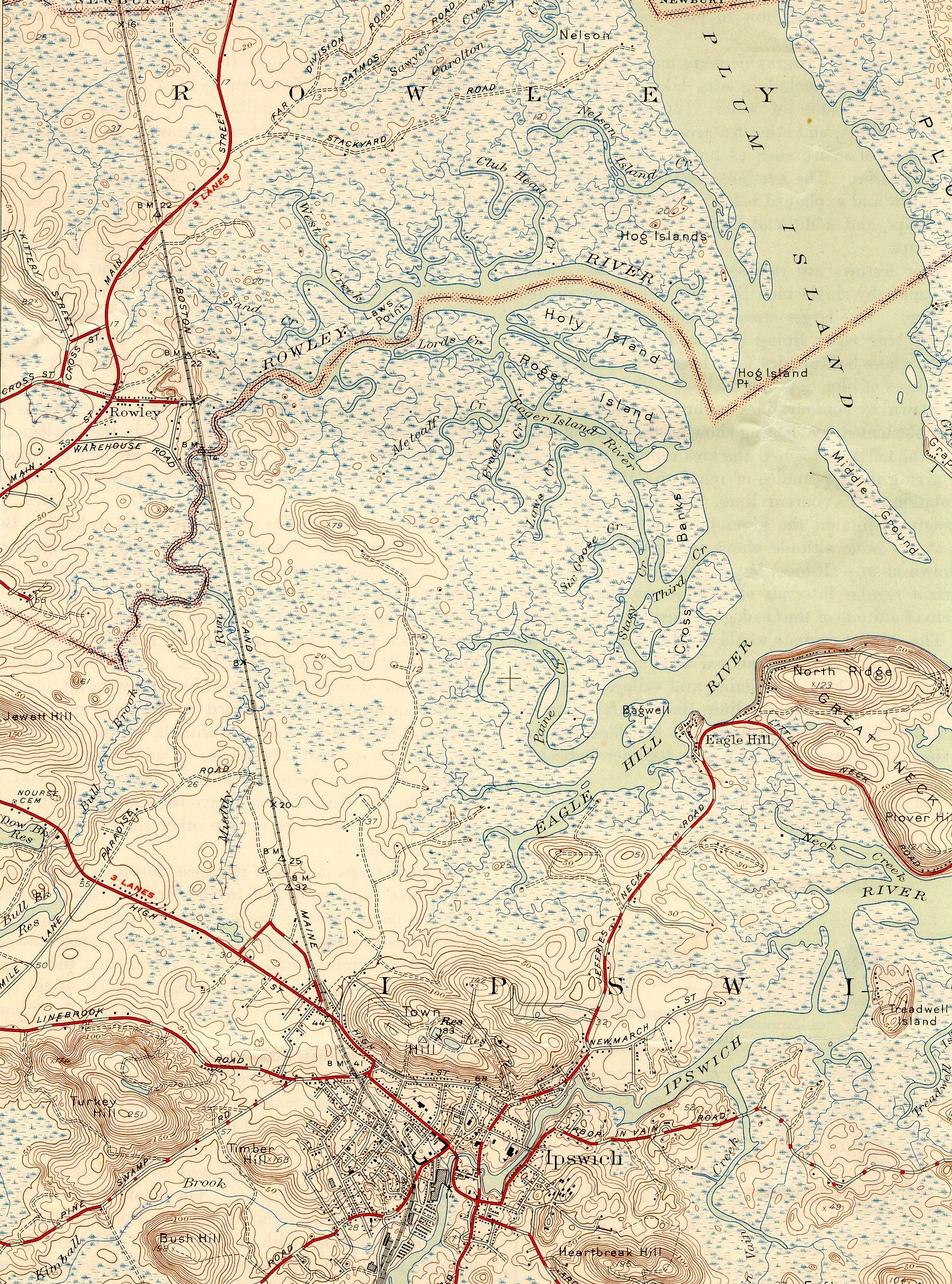 Map of Rowley River, Essex County, Massachusetts, USA. This version is cropped from the original source to delete extraneous terrain.